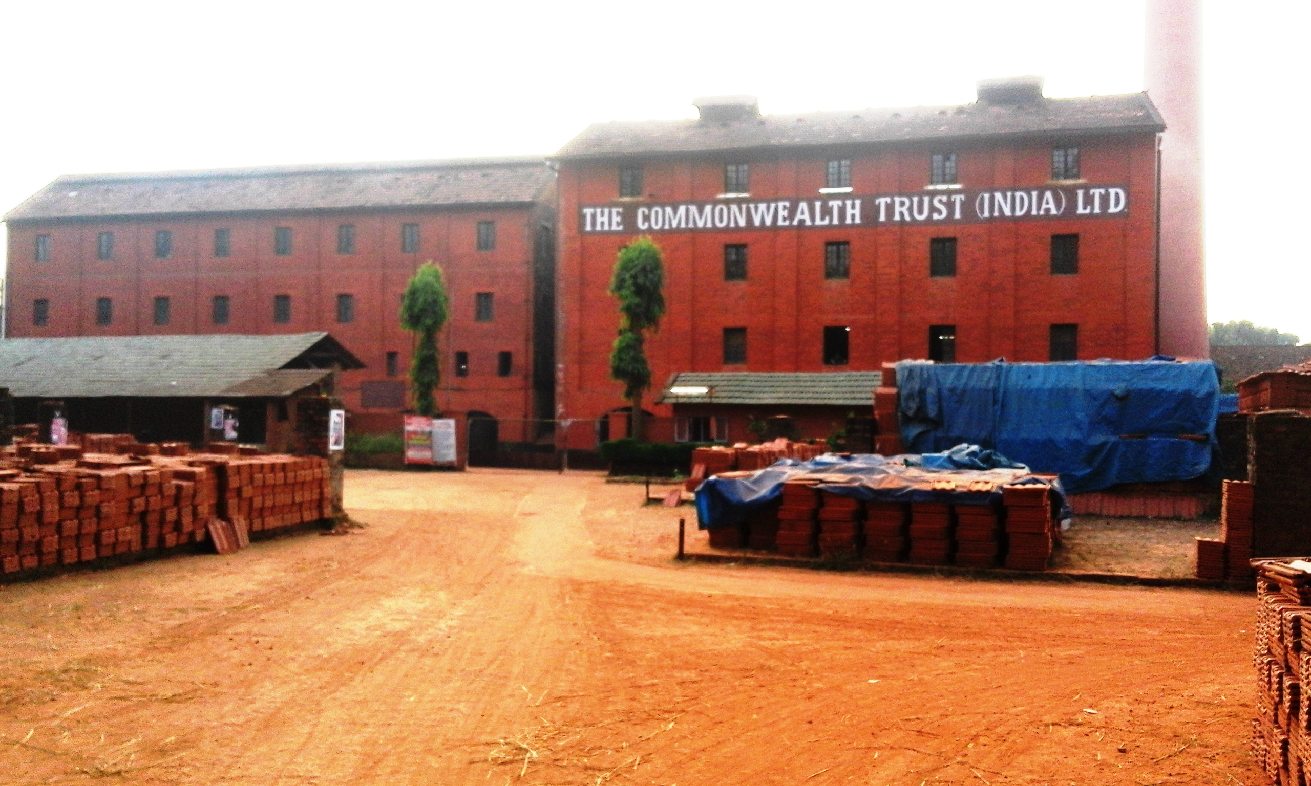 Feroke, Kozhikode District, Kerala province, India.